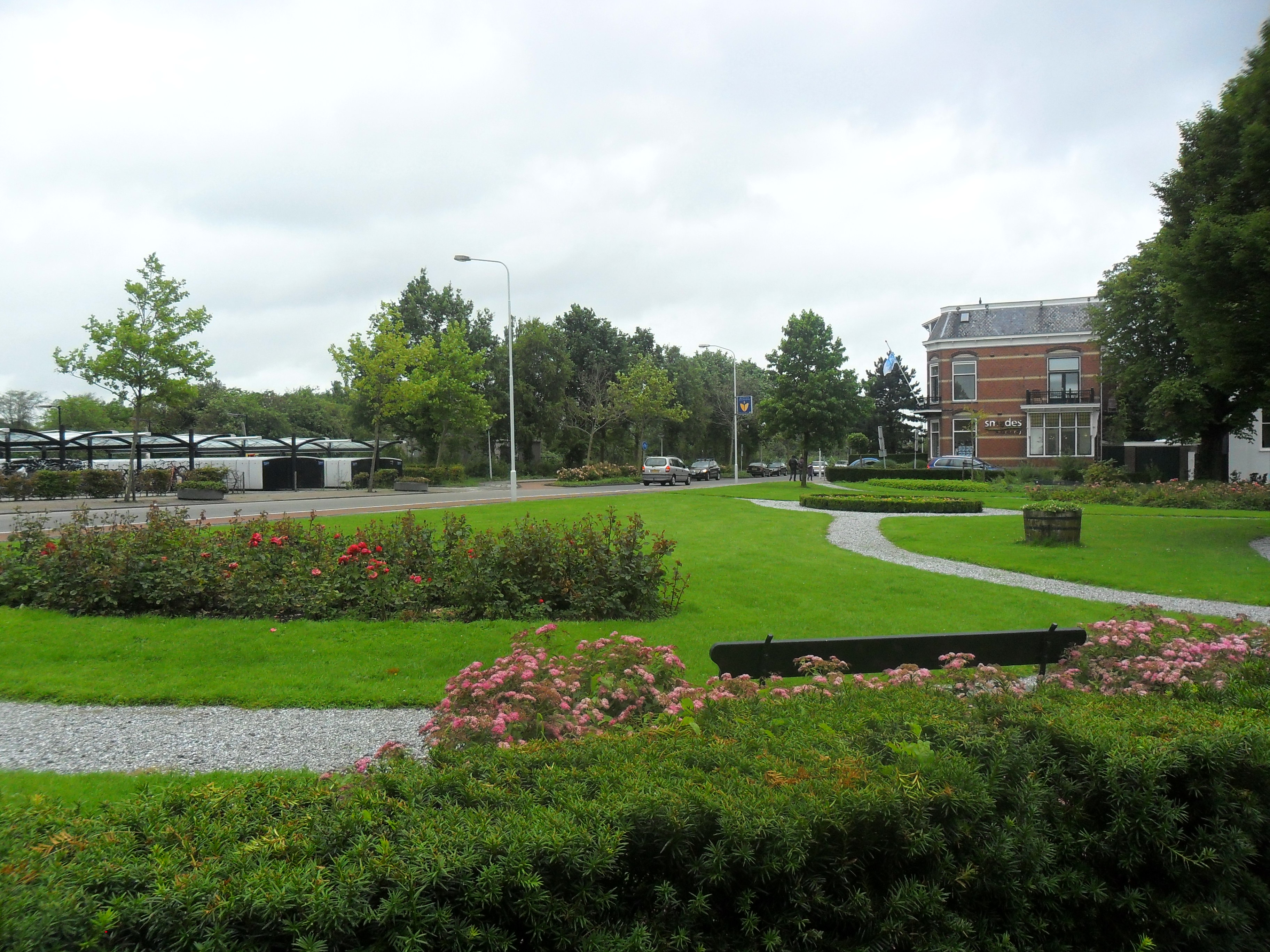 Princess Julianapark in Sneek.